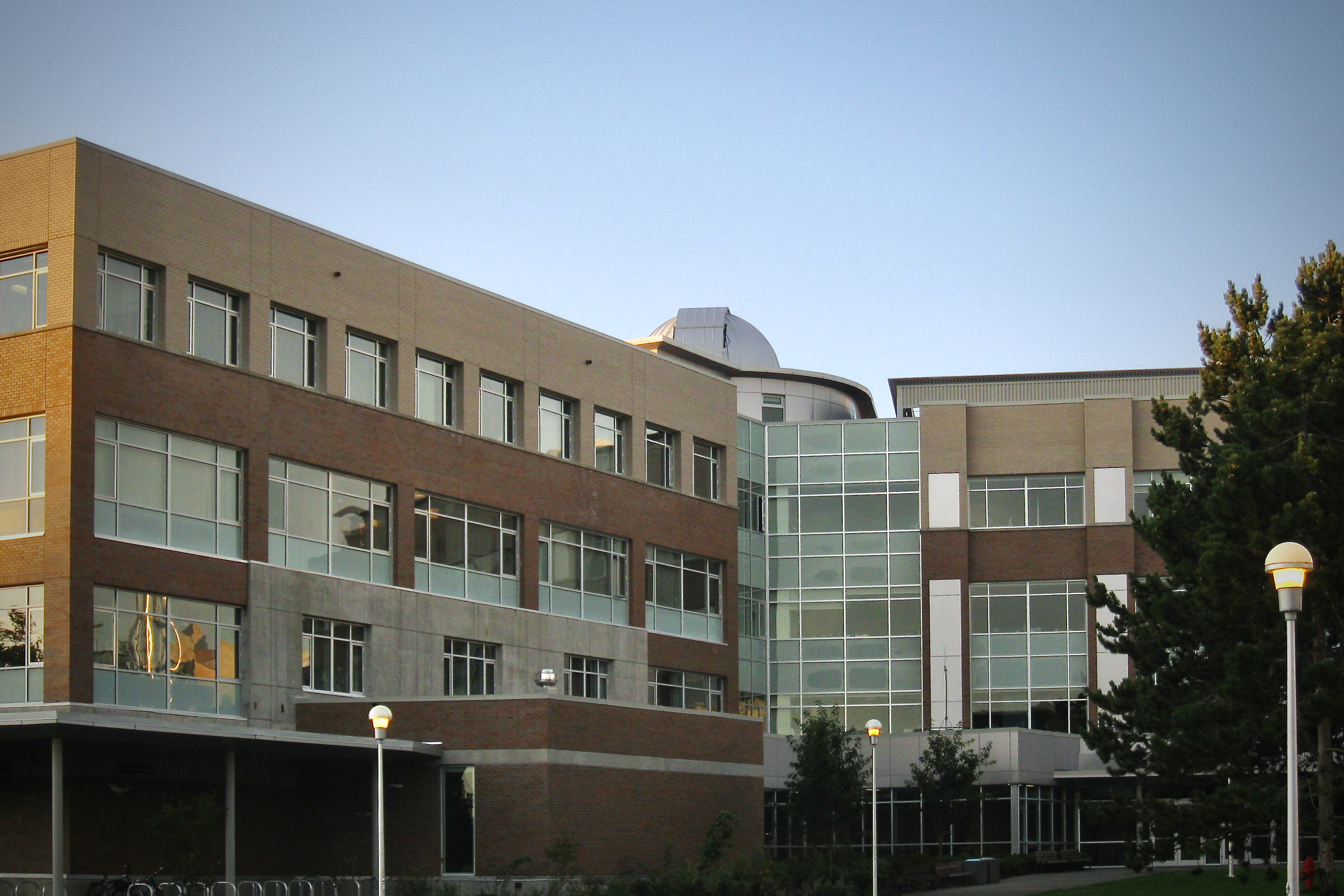 Bob Wright Centre for Ocean Earth and Atmosphere Sciences. READ INFO IN PANORAMIO/COMMENTS